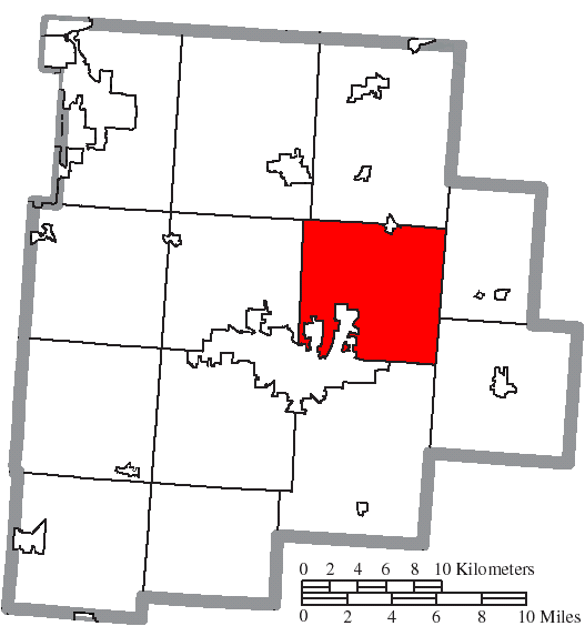 Map of the municipal and township boundaries of Fairfield County, Ohio, United States, as of the 2000 census, with the location of Pleasant Township highlighted. Township borders are shown only in unincorporated areas in order to differentiate incorporated and unincorporated areas more clearly.